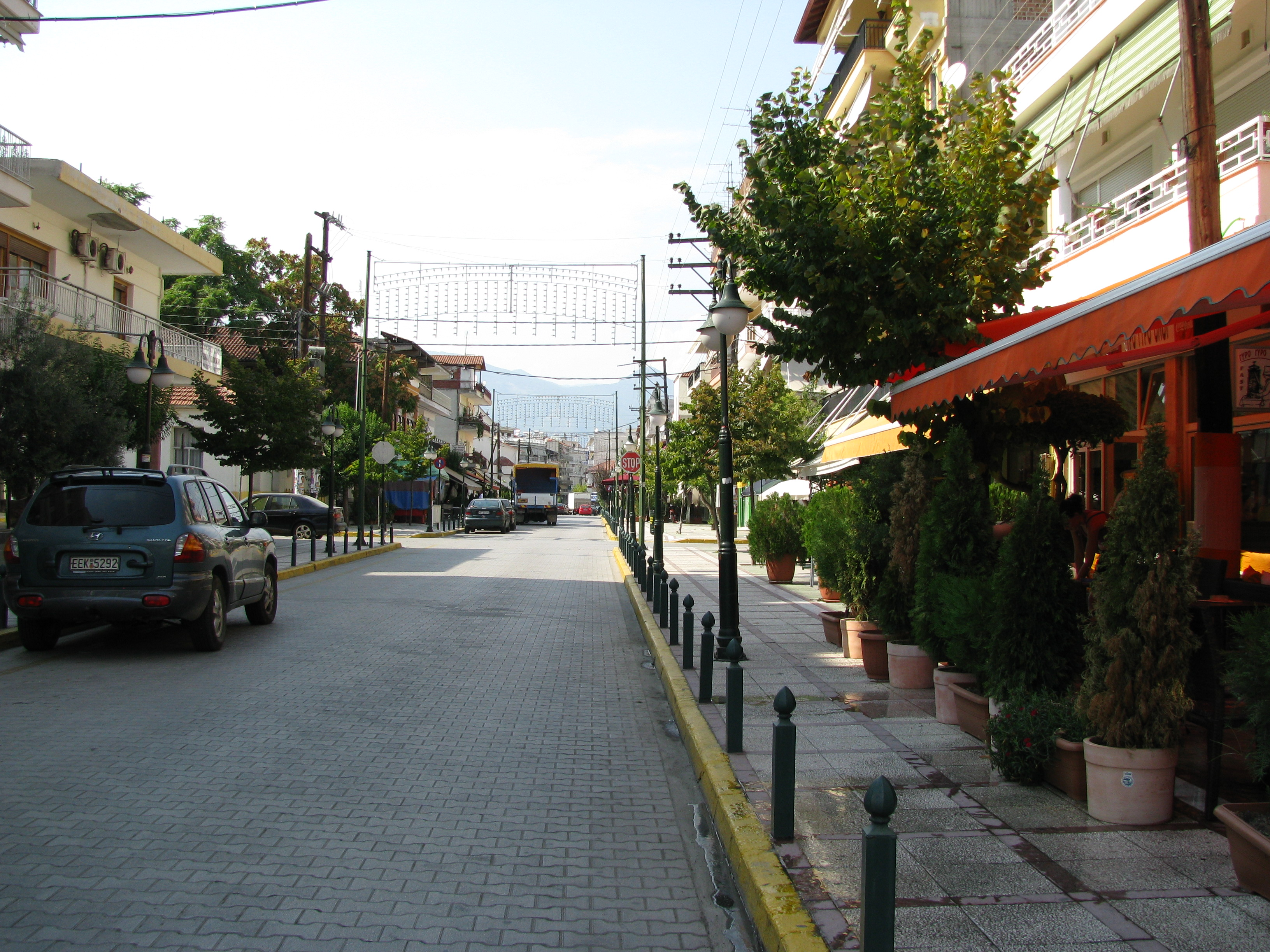 Town of Aridea, Pella prefecture, Greece.